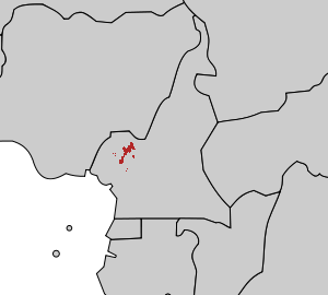 Tauraco bannermani distribution map.